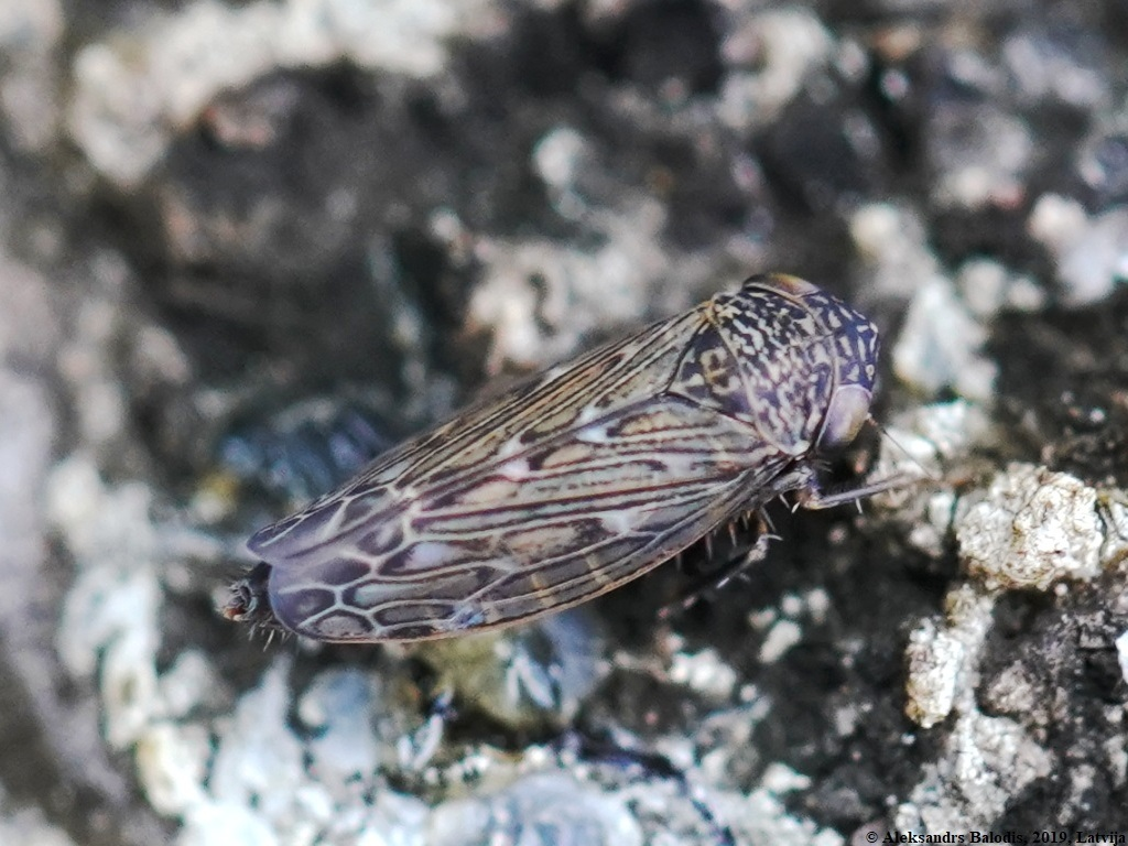 Ophiola russeola